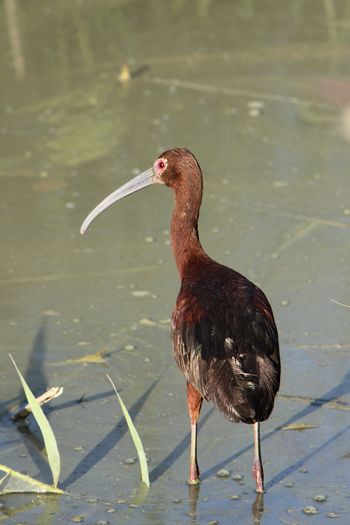 White-faced Ibis Plegadis chihi, Great Salt Lake, Utah.